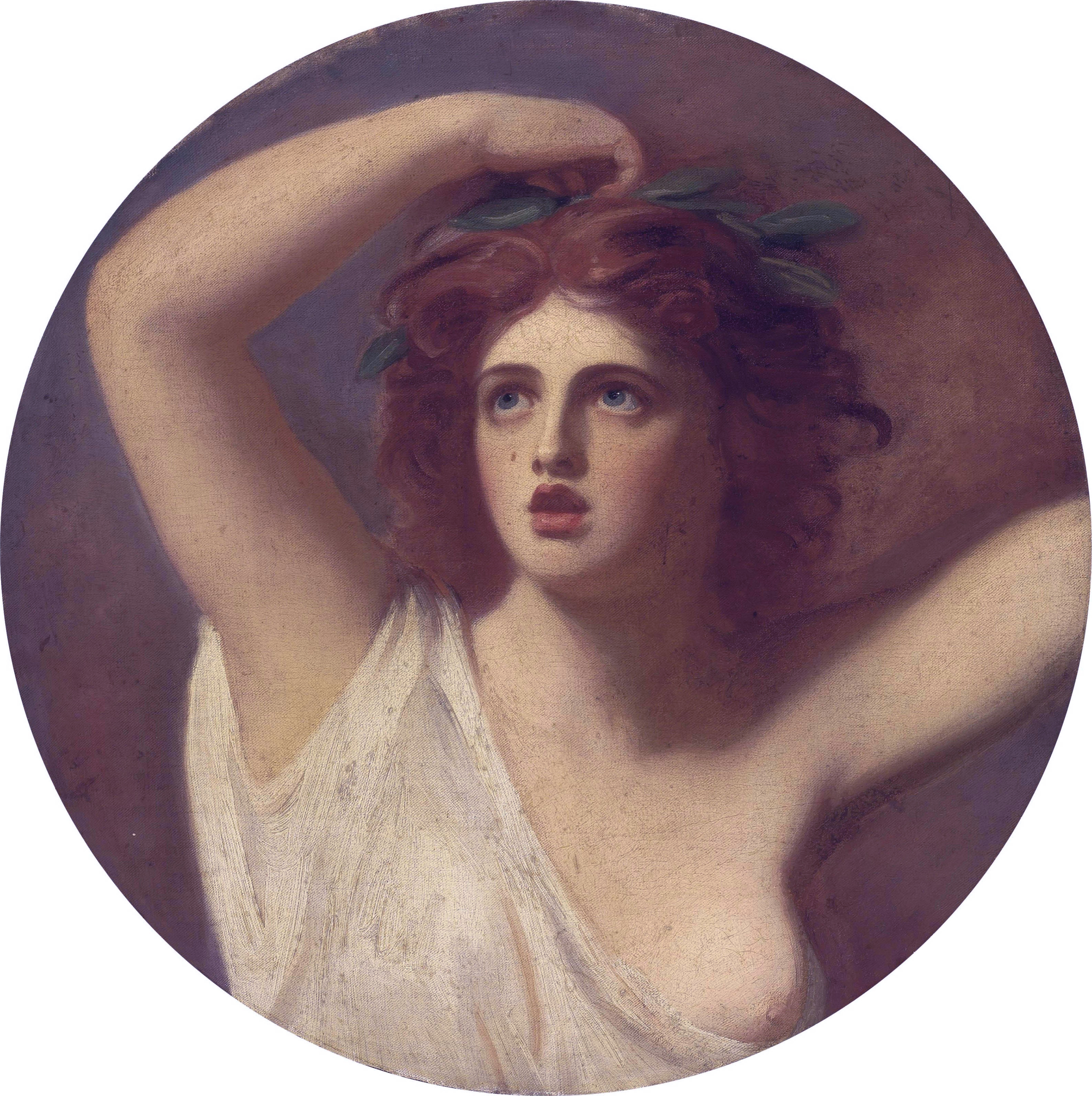 Lady Emma Hamilton, as Cassandra in a white robe, a laurel wreath crowning her head oil on canvas, *circular 63.5 cm. diam.